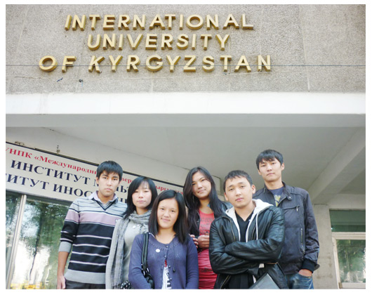 International University of Kyrgyzstan